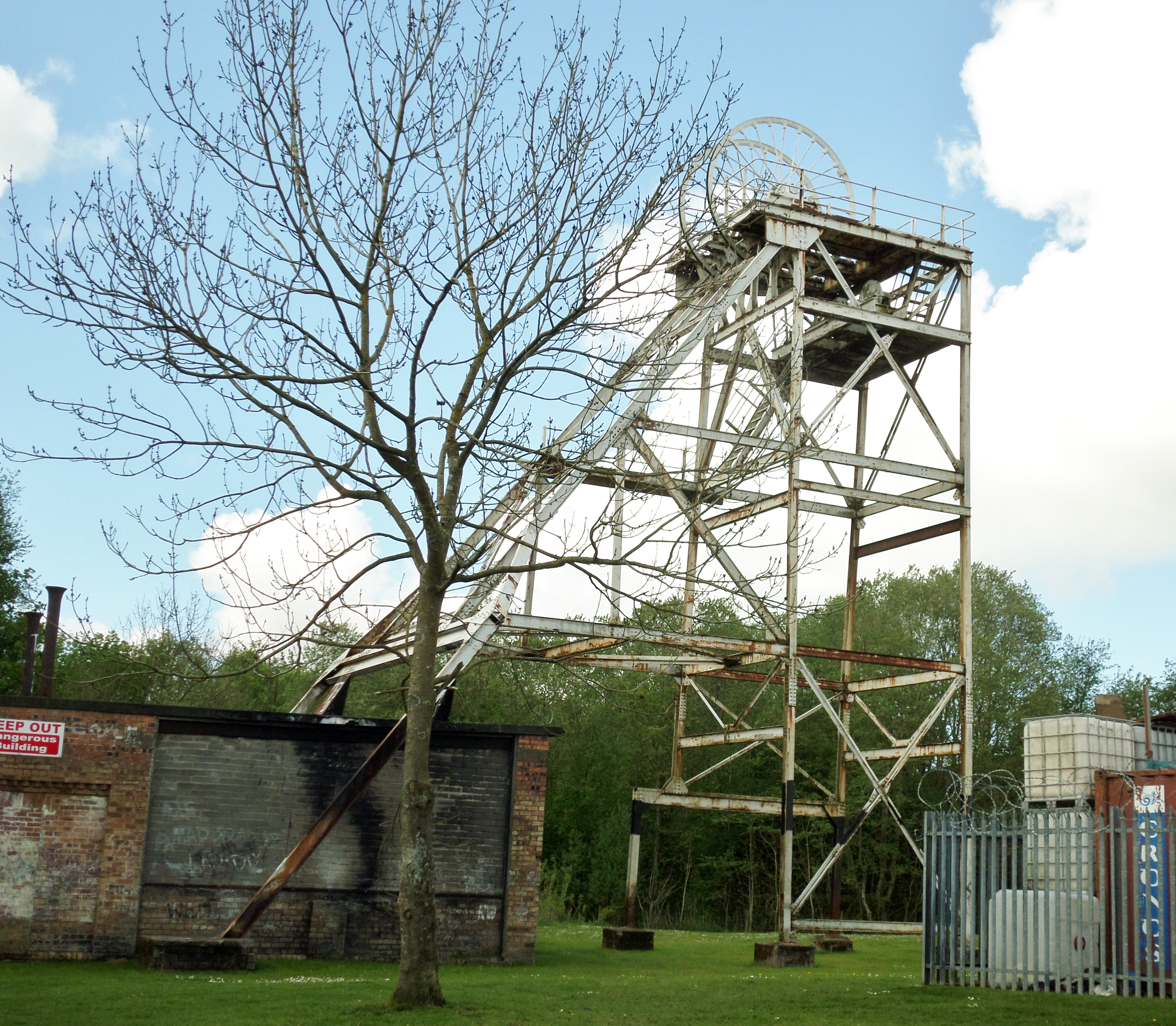 The old Highhouse Colliery winding gear and engine house, Auchinleck, East Ayrshire, Scotland.